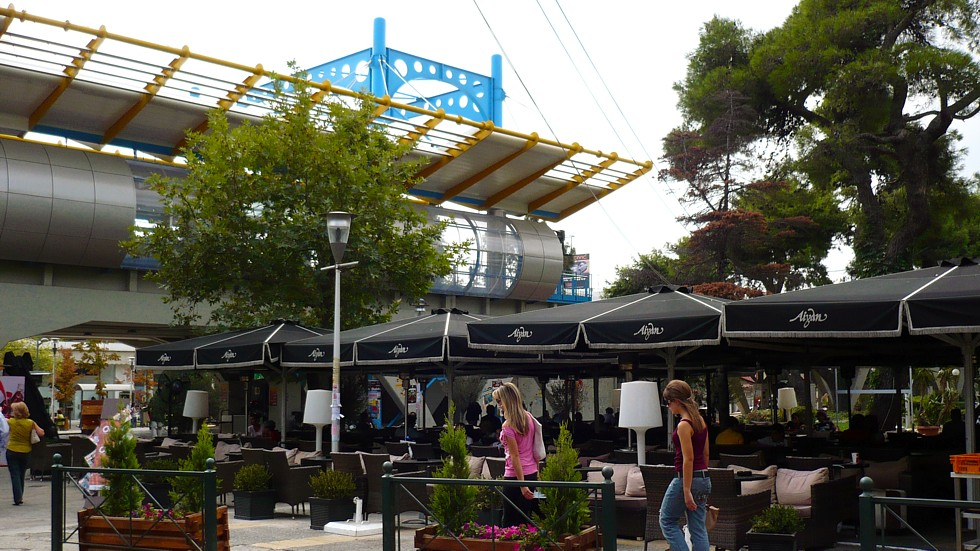 Center of Maroussi.